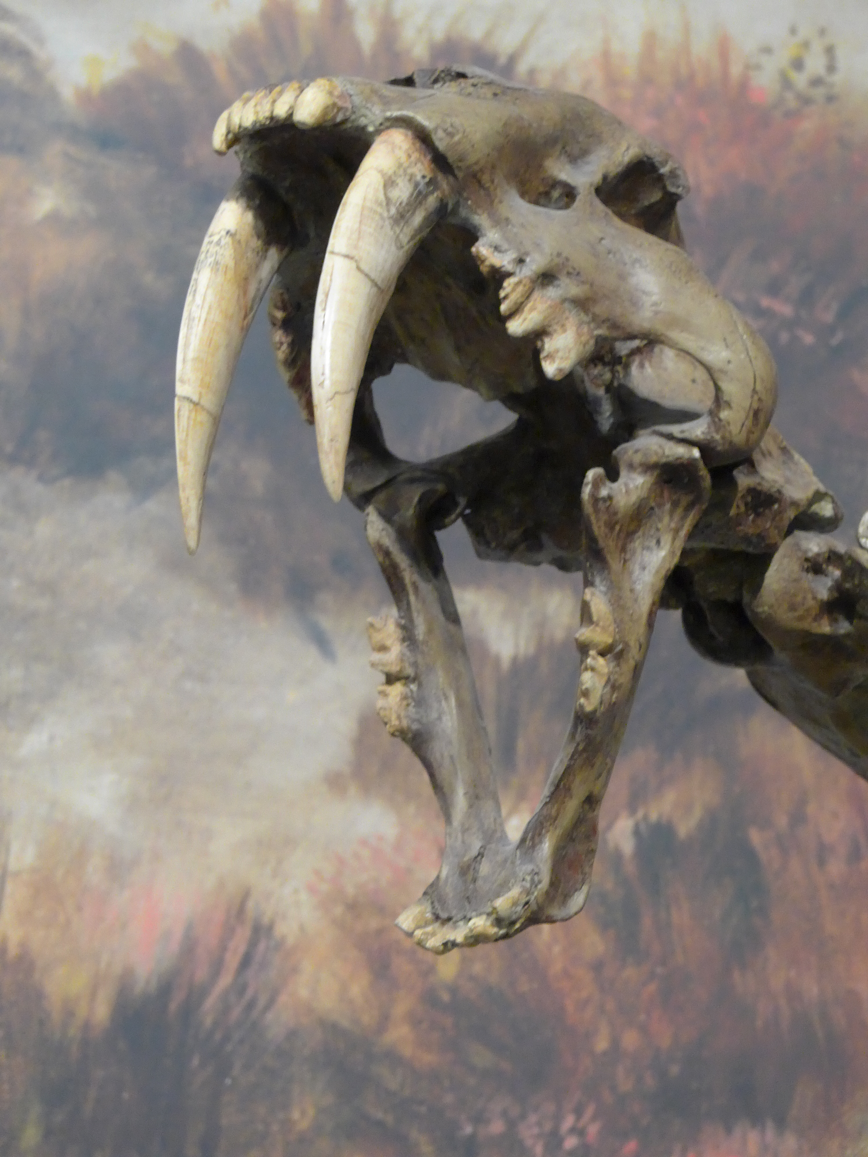 sabertooth cat from University Alberta